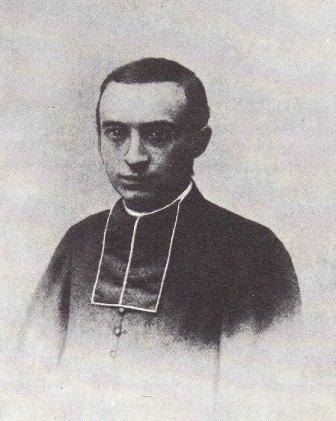 Abbé Breuil, French archaeologist, anthropologist, ethnologist and geologist, known for his studies of cave art.